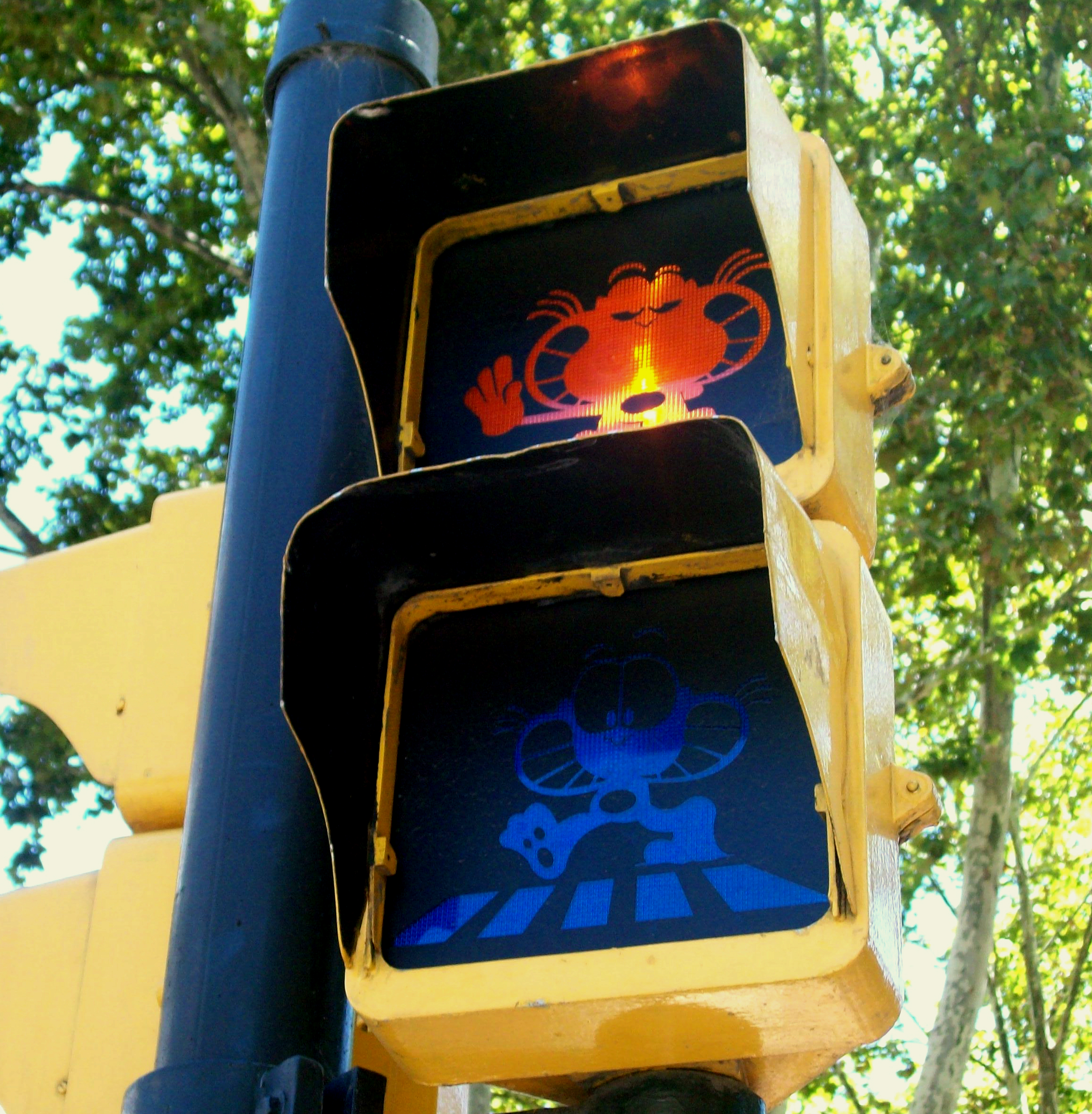 Semaphore where the characters are Gaturro. Ciudad de Buenos Aires, Argentina.